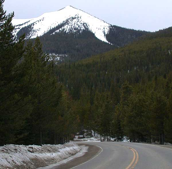 Willow Creek Pass in north central Colorado, seen from south looking toward Parkview Mountain. (April 4, 2005). Trees are mostly Pinus contorta subsp. latifolia.